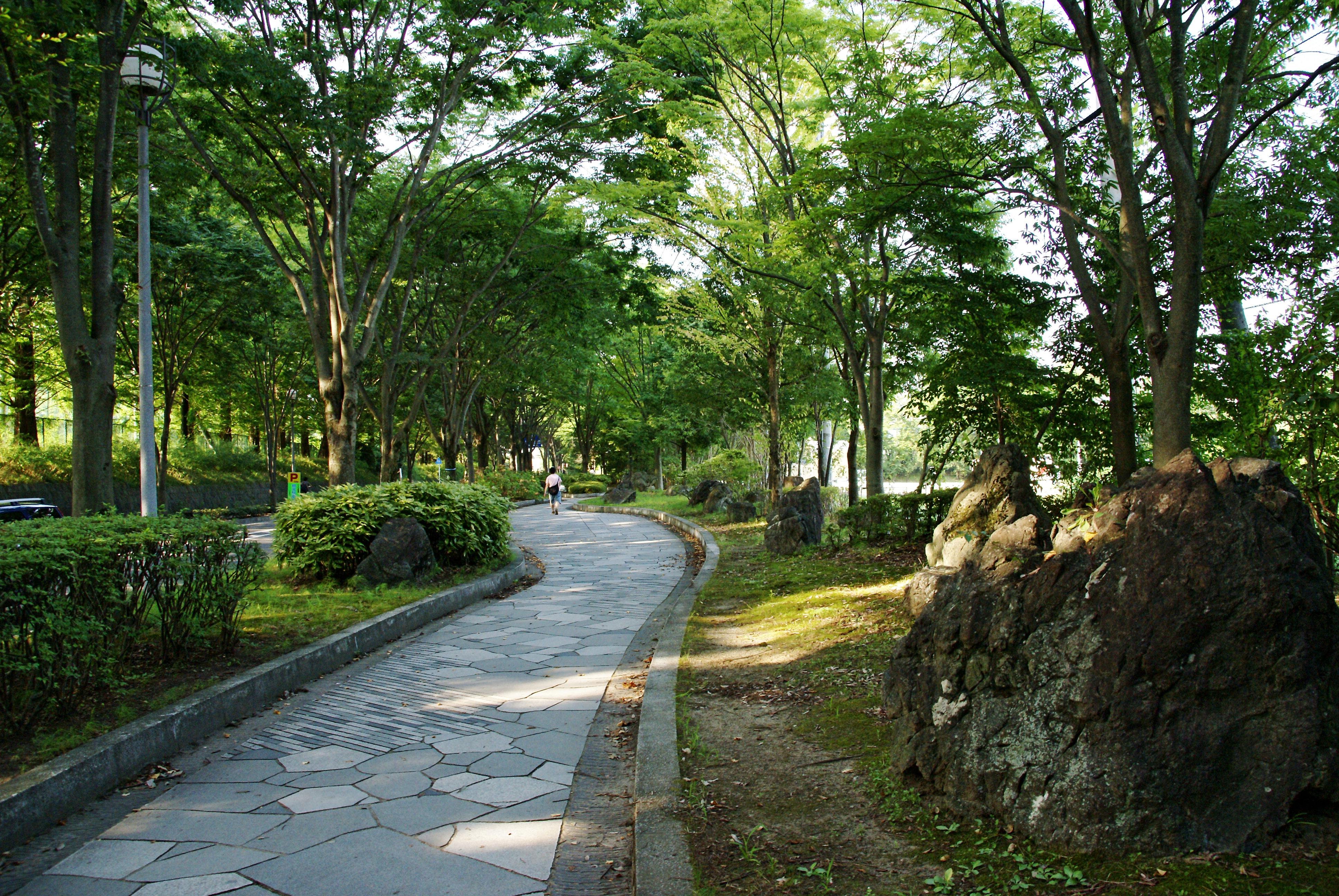 at Aobayama, Aoba-ku, Sendai, Miyagi prefecture, Japan